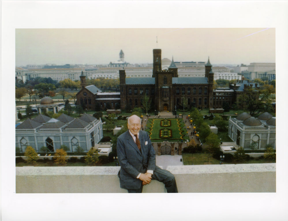 1987. Smithsonian Secretary S. Dillon Ripley sitting on roof of building across from South Yard. Aerial view of Quadrangle shows Smithsonian Institution Building (SIB) or Castle, Enid A. Haupt Garden, National Museum of African Art (NMAfA) and Arthur M. Sackler Gallery (AMSG). The National Mall and National Museum of Natural History can be seen behind the Castle in the distance.